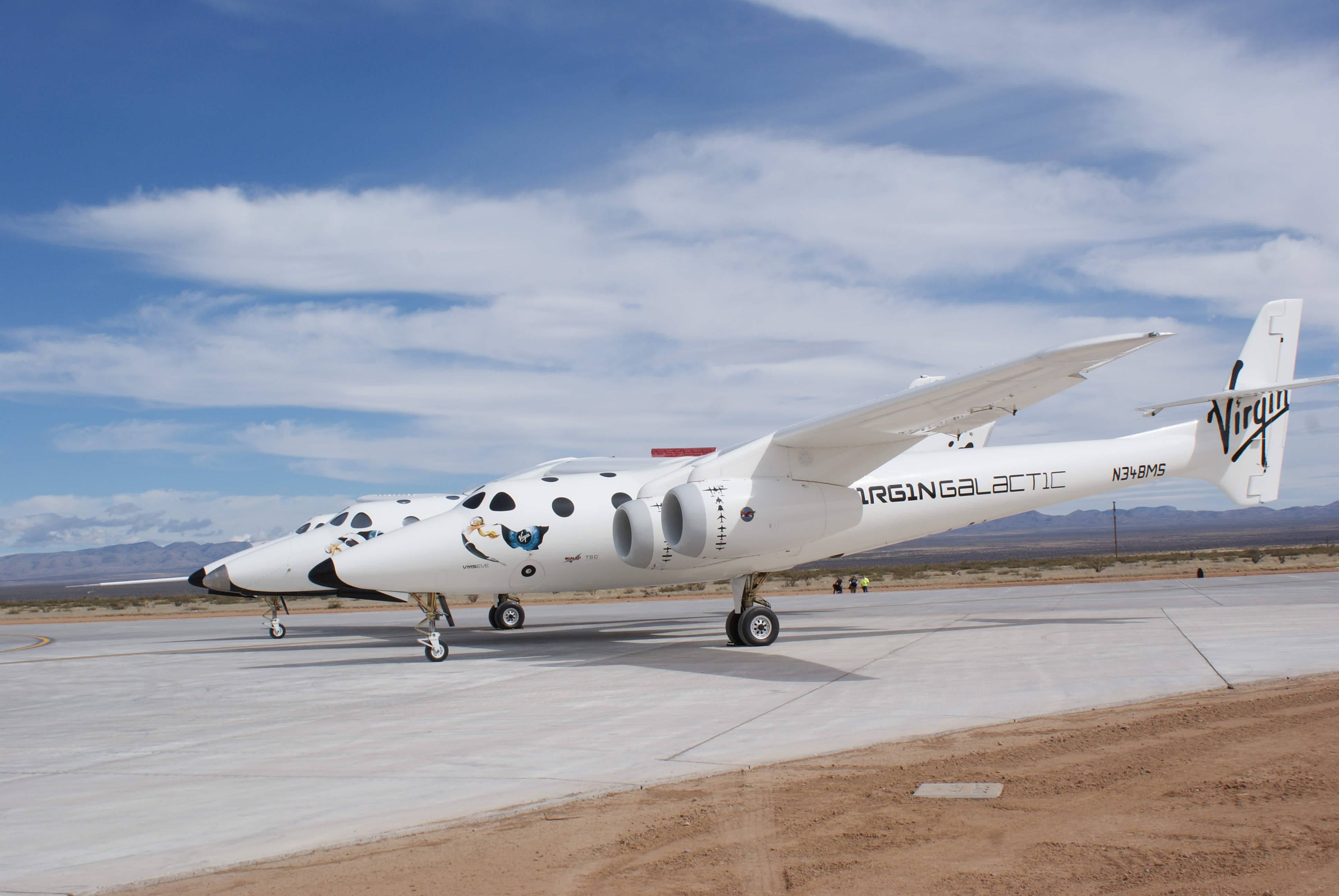 White Knight Two and SpaceShipTwo on the taxiway at Spaceport America.